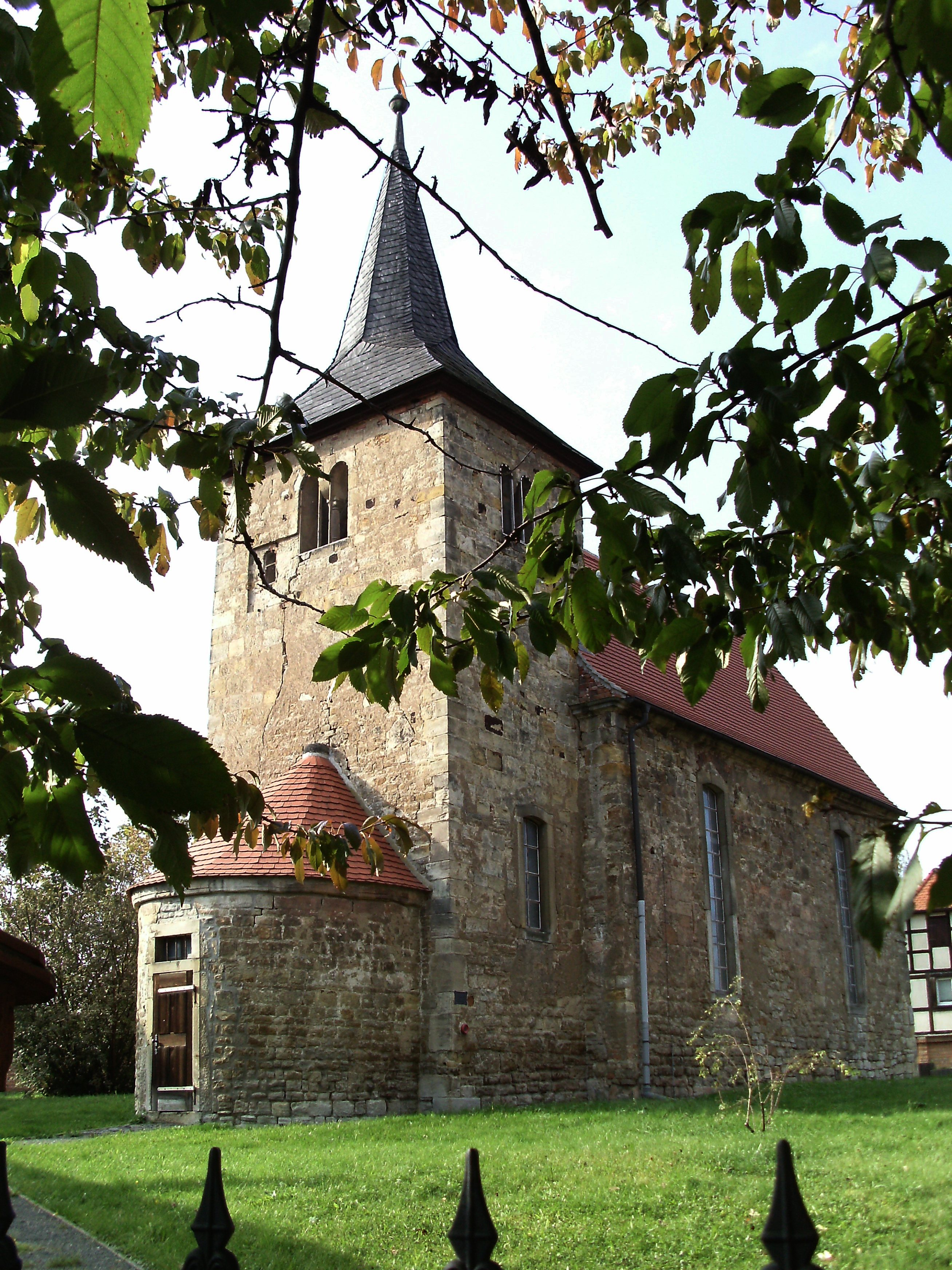 Pörsten church (Lützen, district of Burgenlandkreis, Saxony-Anhalt)